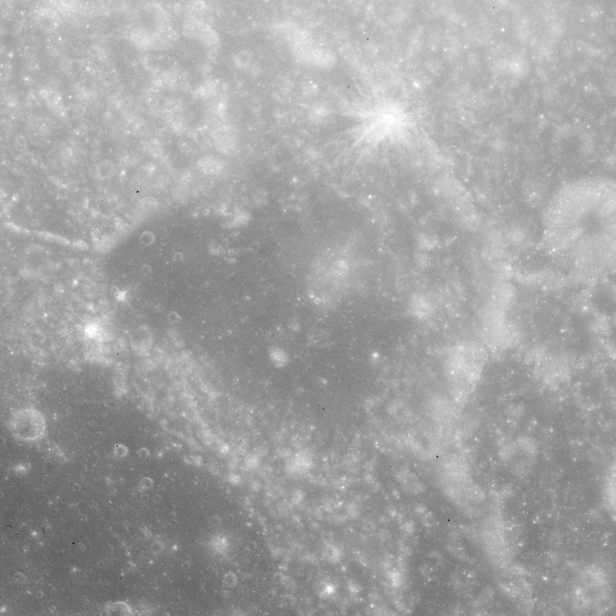 Condon crater, on the moon.